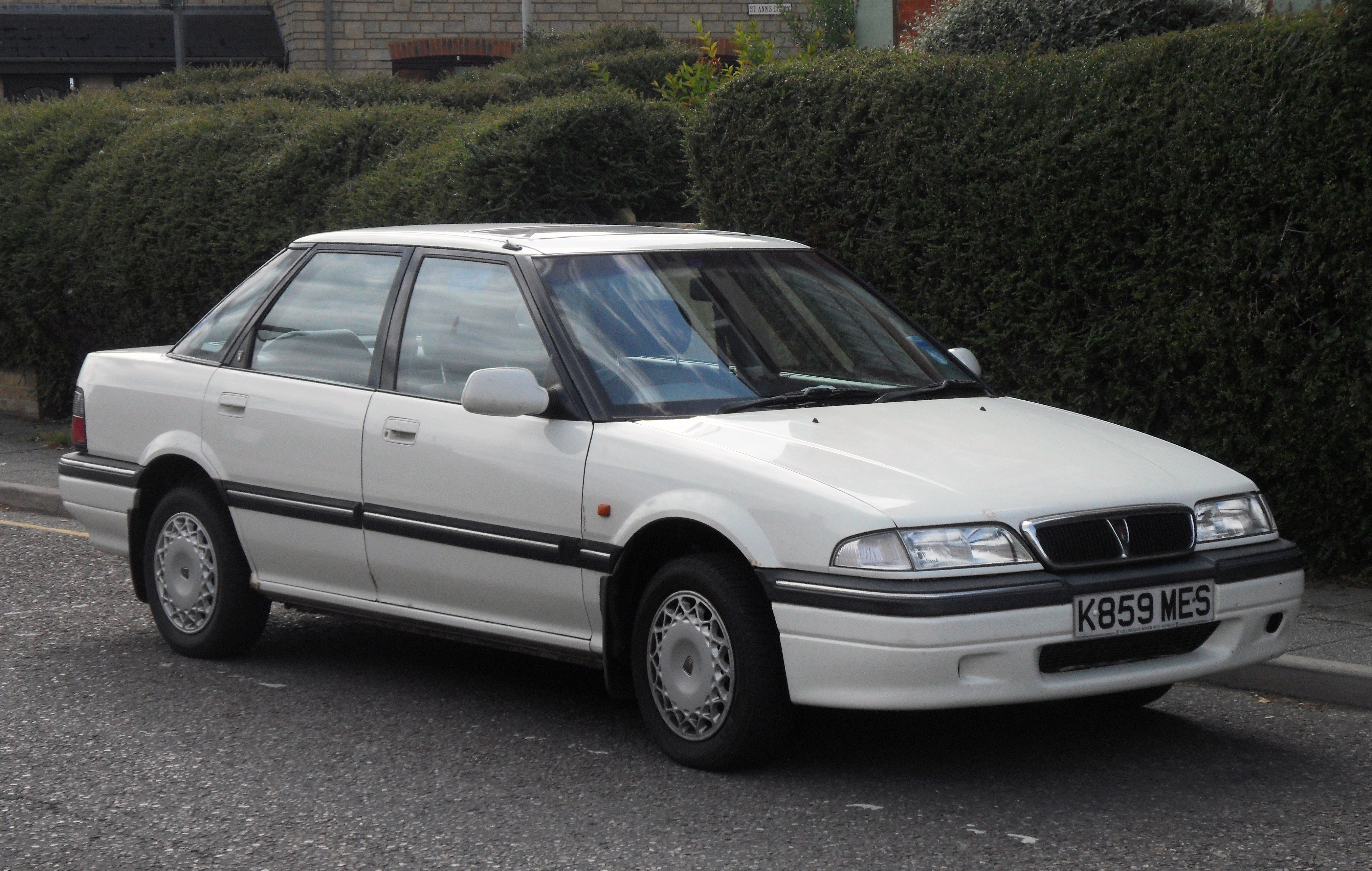 A very tidy looking car. Pretty mint really! I believe all parts visible are original? It sounds quite a small engine for a relatively big car- 1.4 litres? Anyway, these are only going to get rarer in the future.